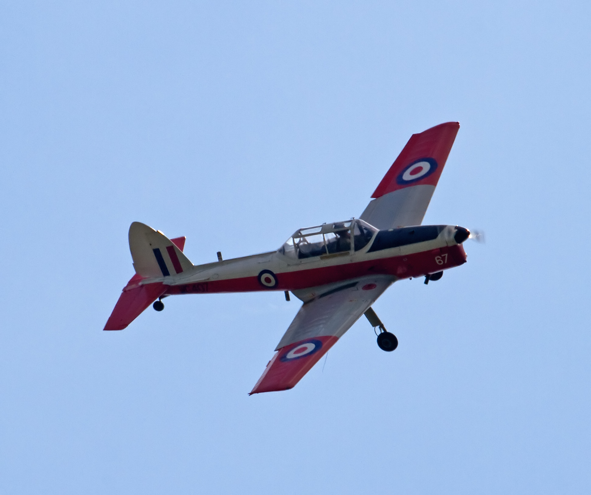 Chipmunk 1